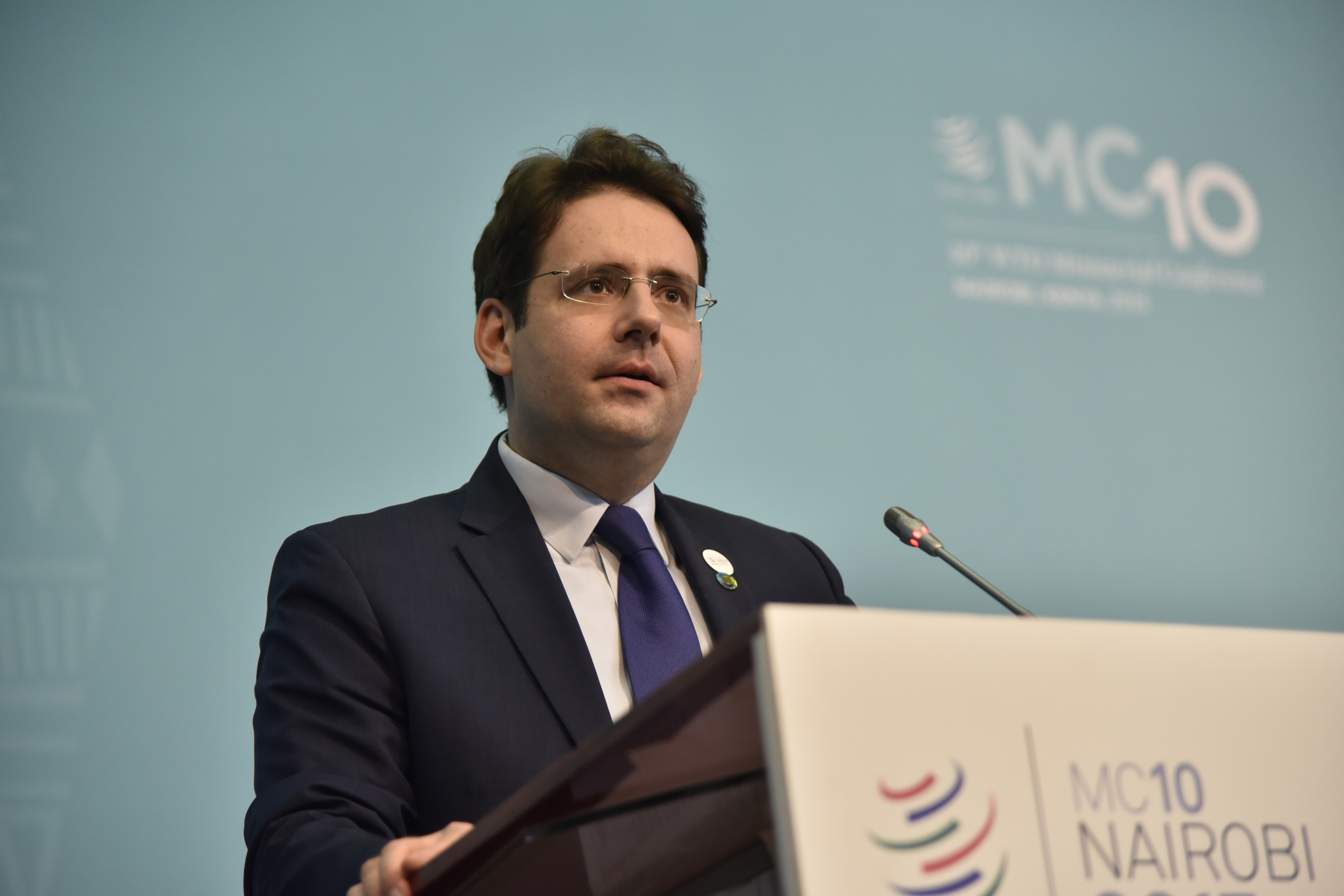 Day 2 of the 10th WTO Ministerial Conference, Nairobi, 16 December 2015. Photos may be reproduced provided attribution is given to the WTO and the WTO is informed. Photos: © WTO. Courtesy of Admedia Communication.